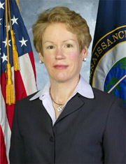 Betty J. Sapp, Director of the National Reconnaissance Office